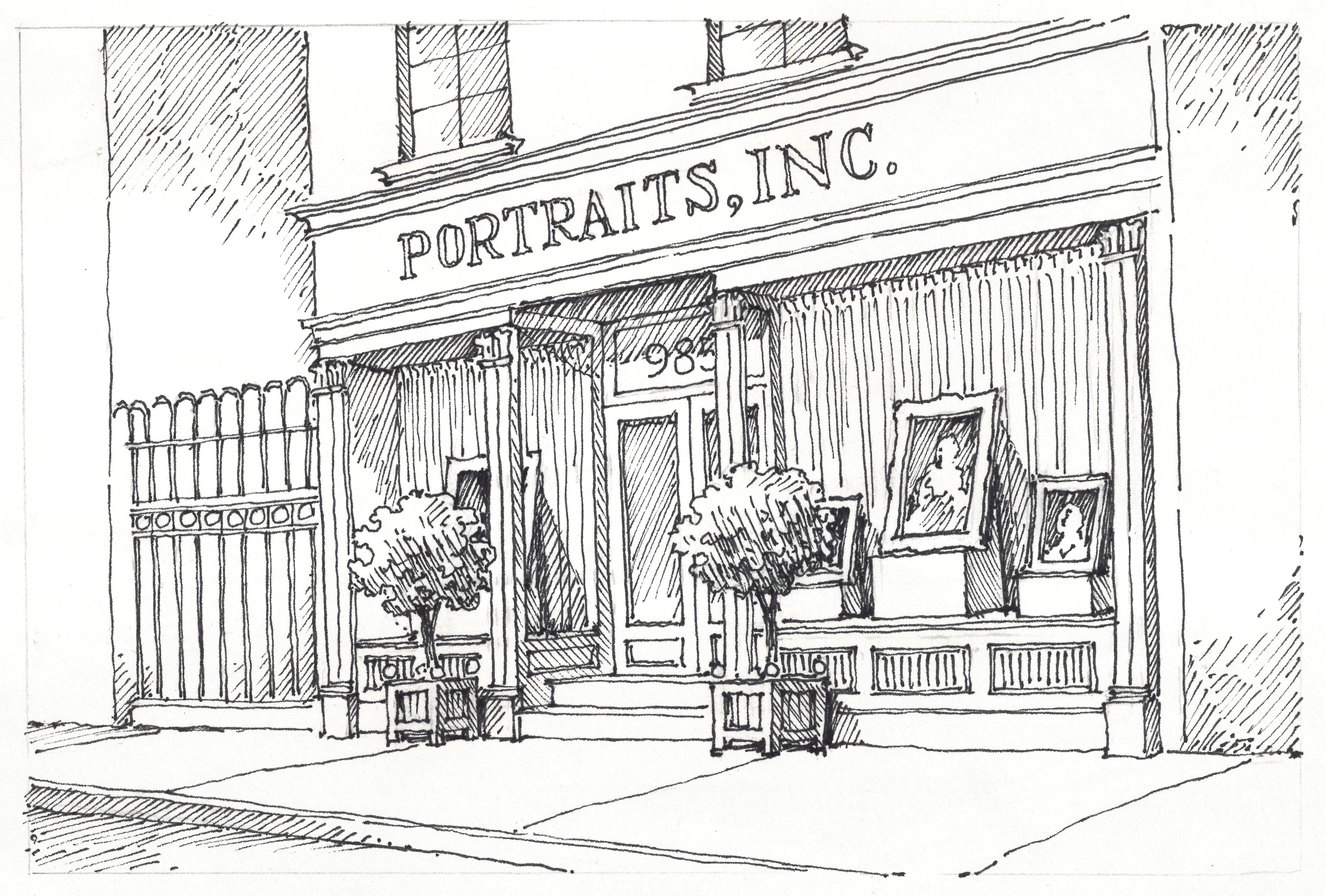 Portraits Inc mid 20th century Park Avenue location New York, New York